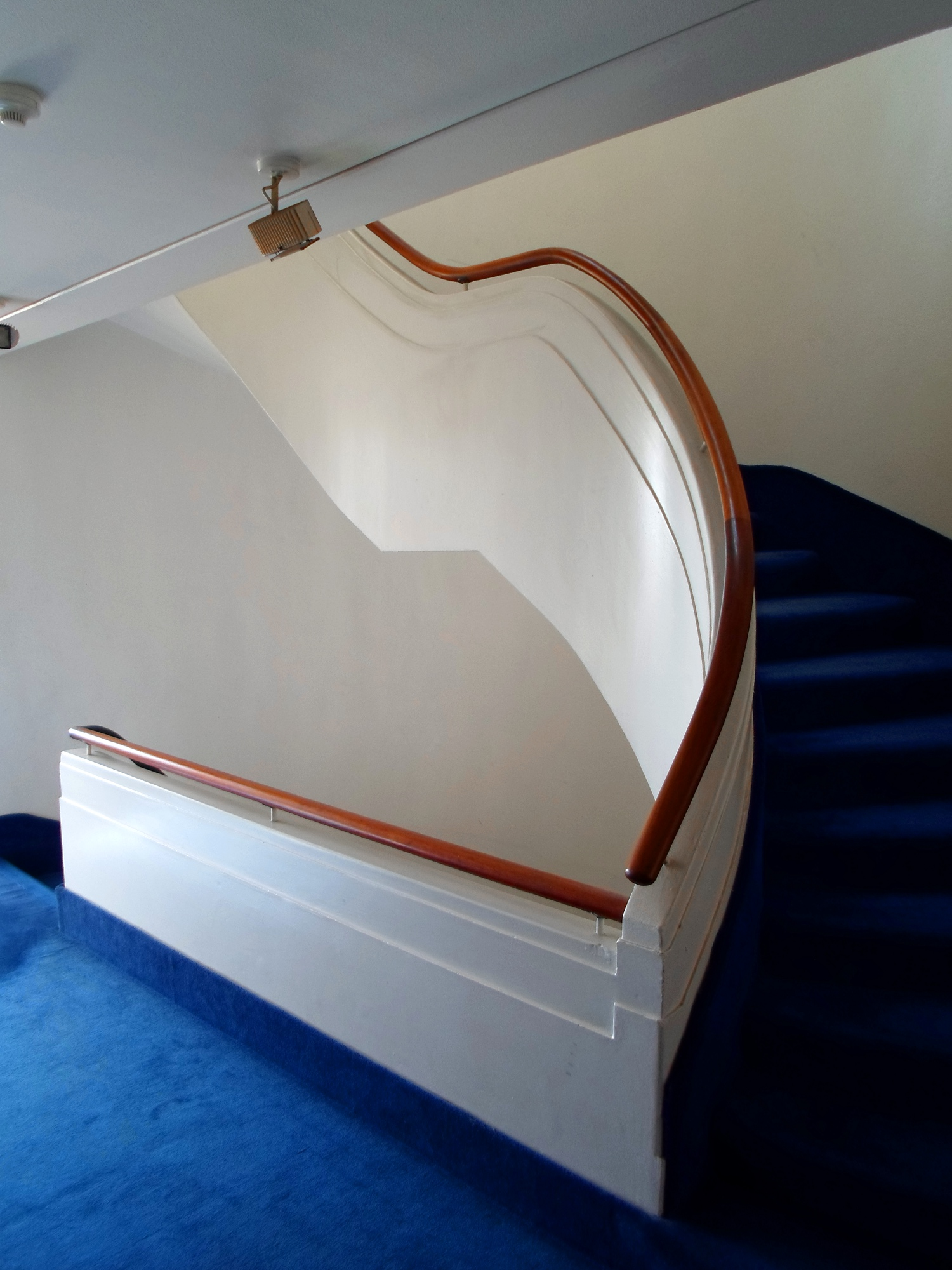 Main stairwell inside Holyman House, Launceston showing Art Deco design